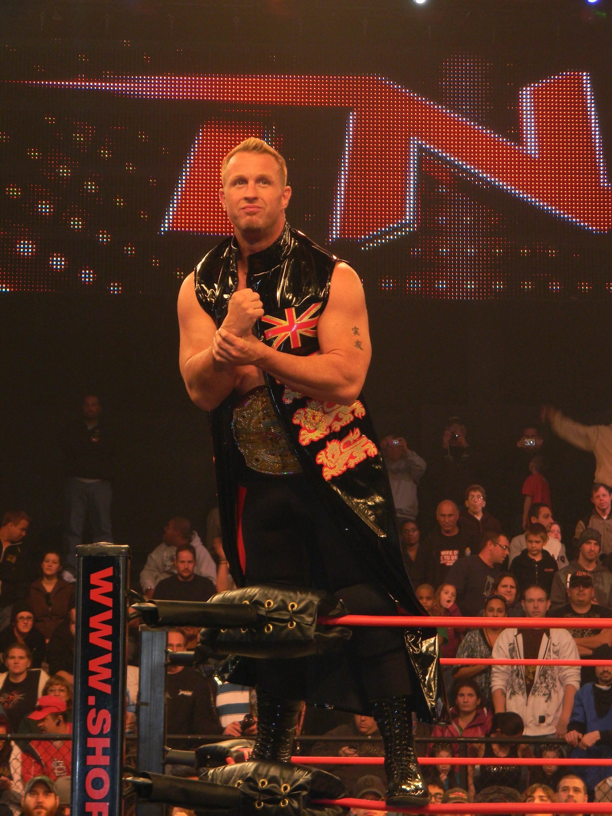 Douglas Williams poses for the cameras before a Television Title defense on Impact.